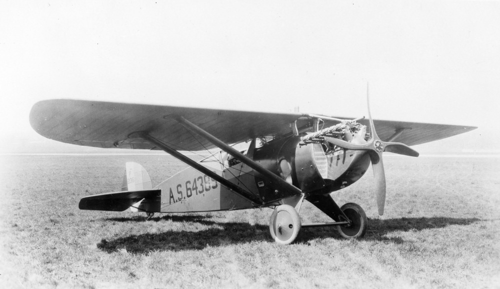 PictionID:41899279 - Title:Ray Wagner Collection Image - Catalog:16_000655 Loening PW-2B 64389 - Filename:16_000655 Loening PW-2B 64389.tif - - - - Ray Wagner was Archivist at the San Diego Air and Space Museum for several years and is an author of several books on aviation --- ---Please Tag these images so that the information can be permanently stored with the digital file.---Repository: San Diego Air and Space Museum